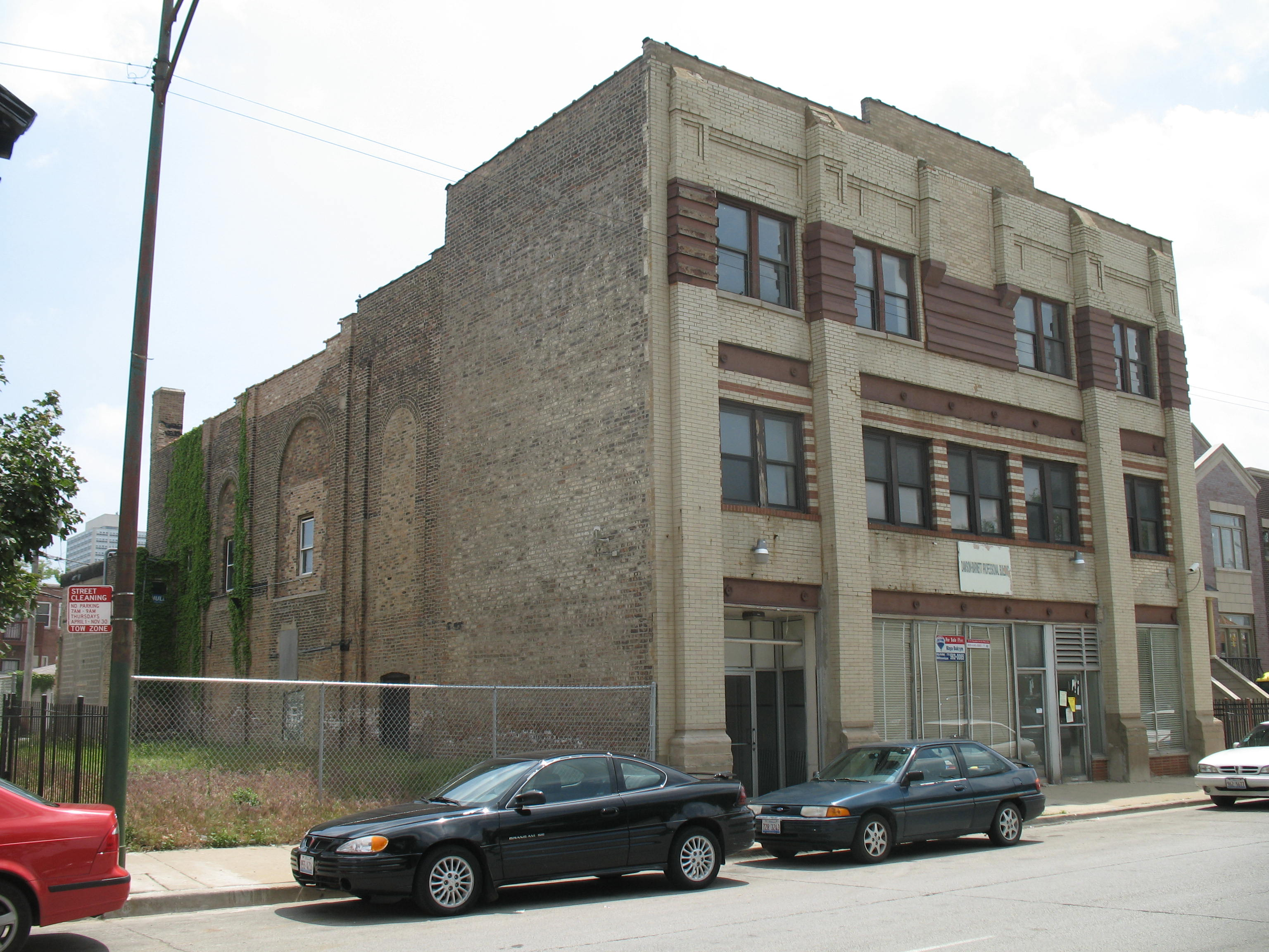 Chicago Defender Building door